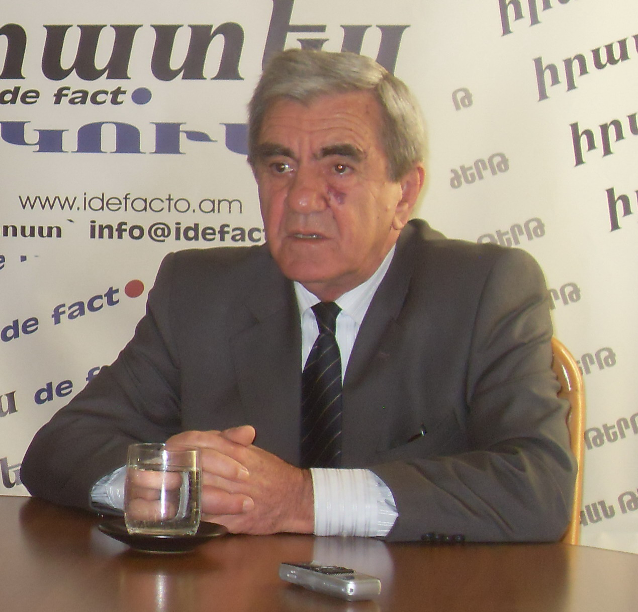 Erjanik Abgaryan - armenian politician